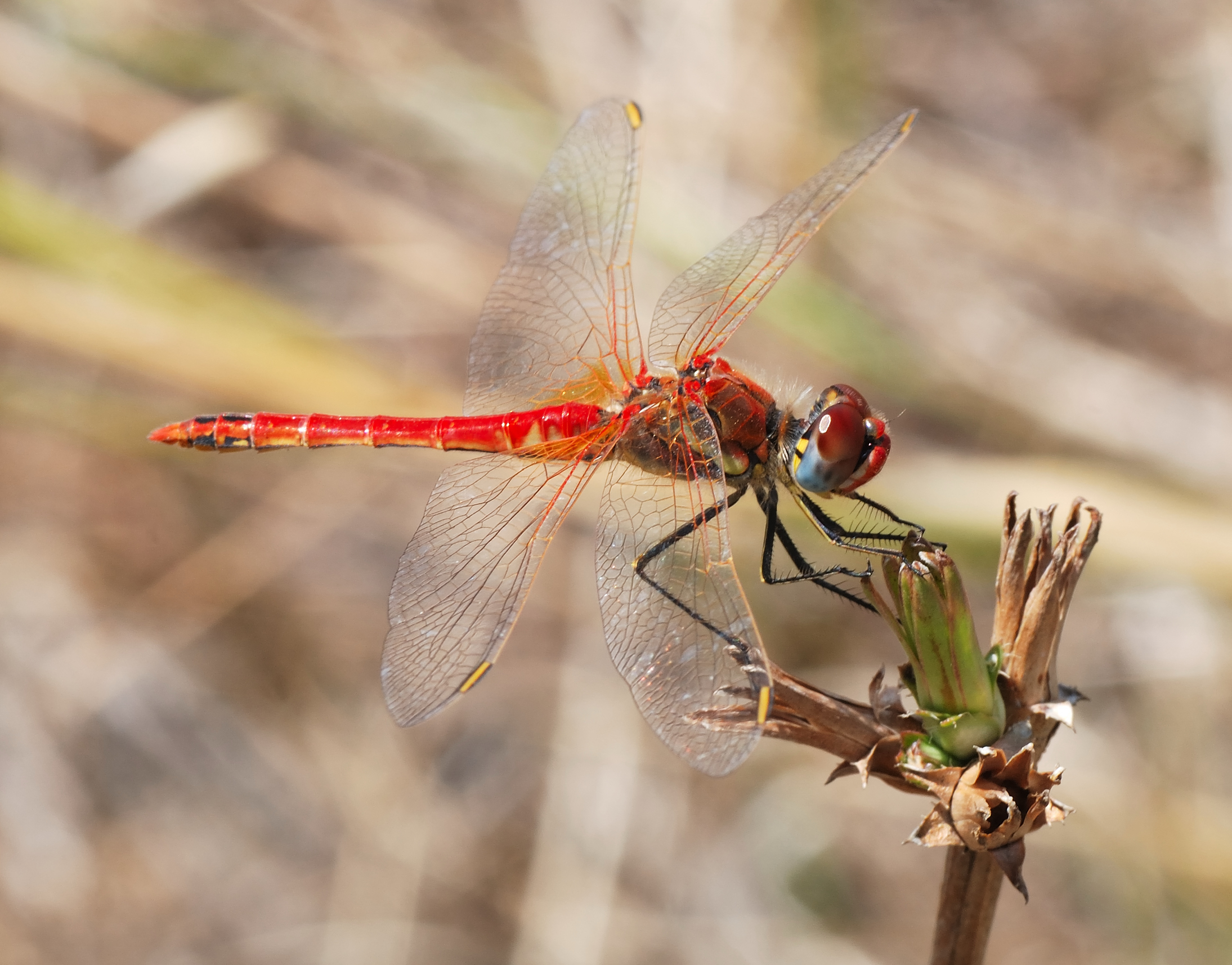 Male Red-veined darter dragonfly (Sympetrum fonscolombii)